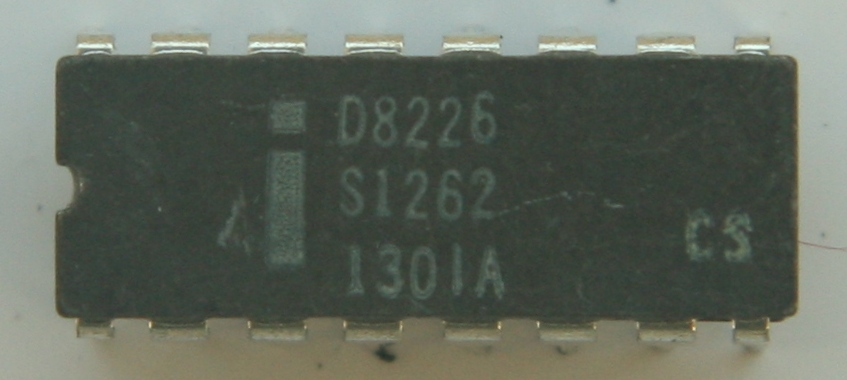 IC photo